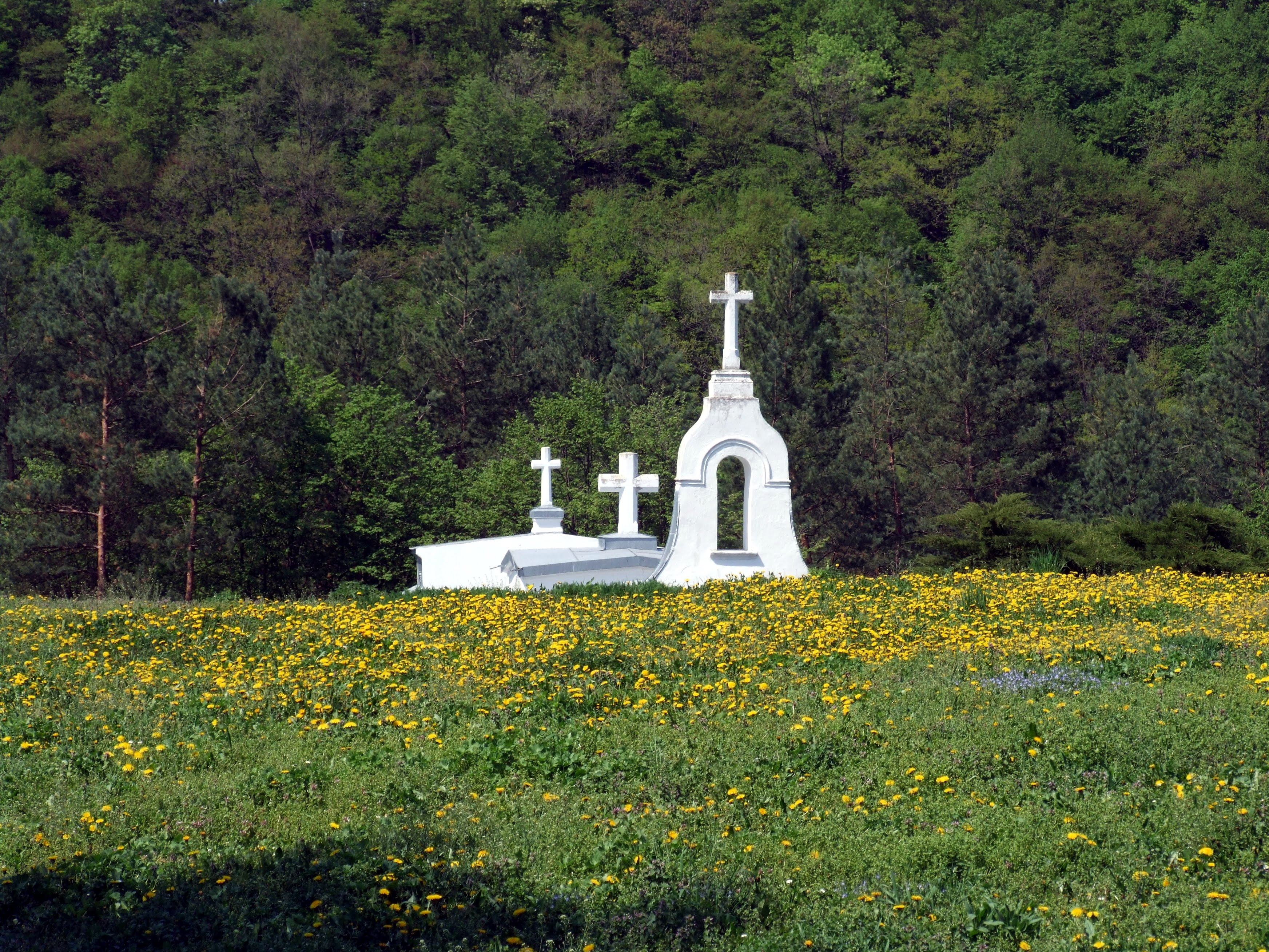 JAZŁOWIEC (Язловець). Grobowiec ss. niepokalanek. Underground tomb of the nuns from the nearby Polish convent.